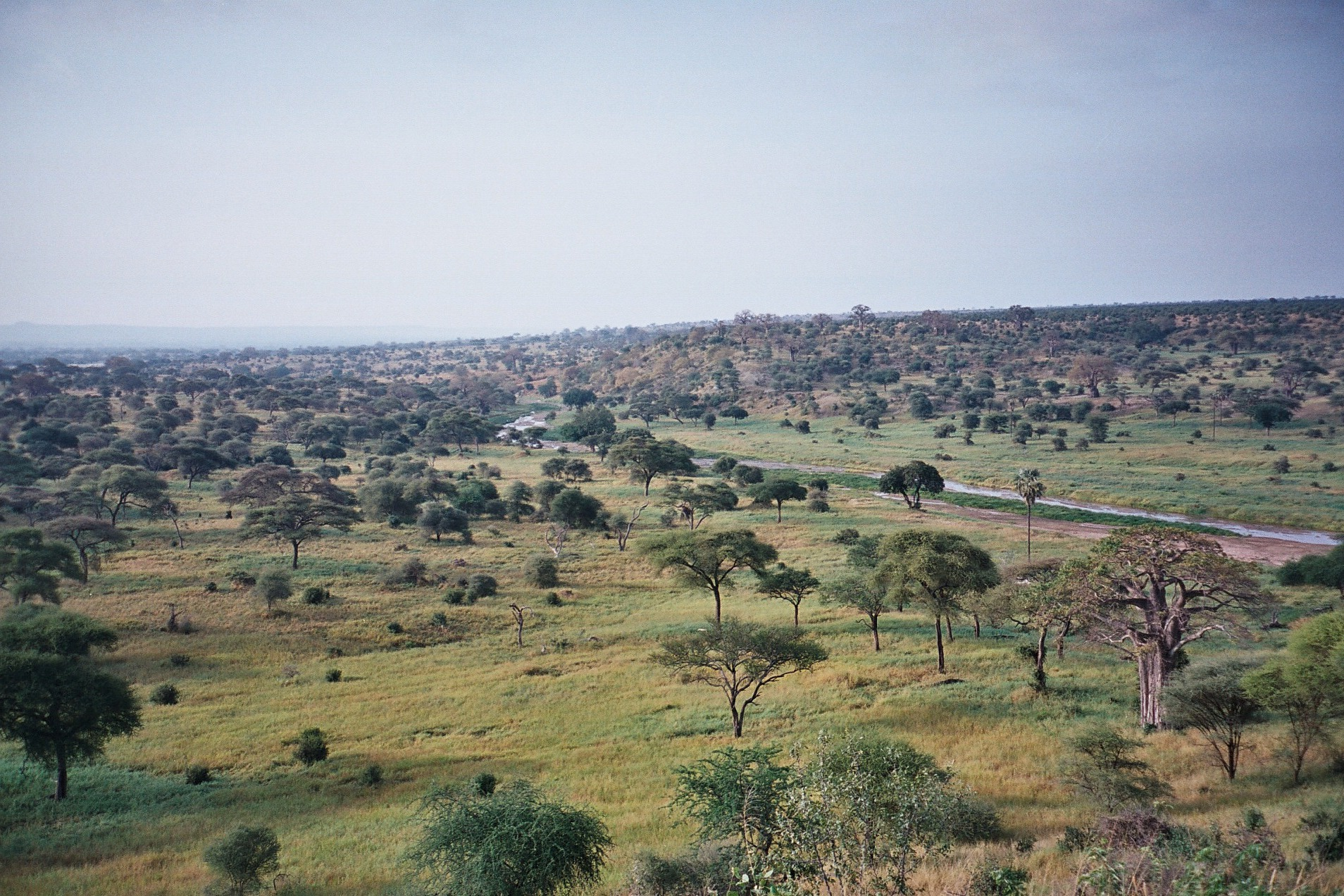 View of Tarangire river valley in Tarangire National Park, northern Tanzania. As the picture is taken at the very beginning of the dry season, the Baobabs still have their leaves and the landscape is to remain green for a couple of weeks.